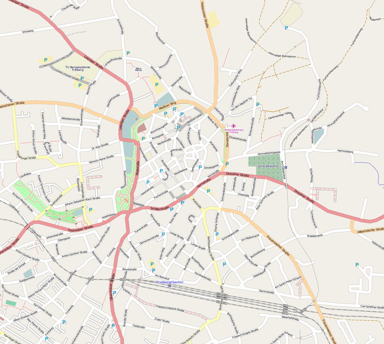 Map of the inner city of Freiberg, Saxony, Germany